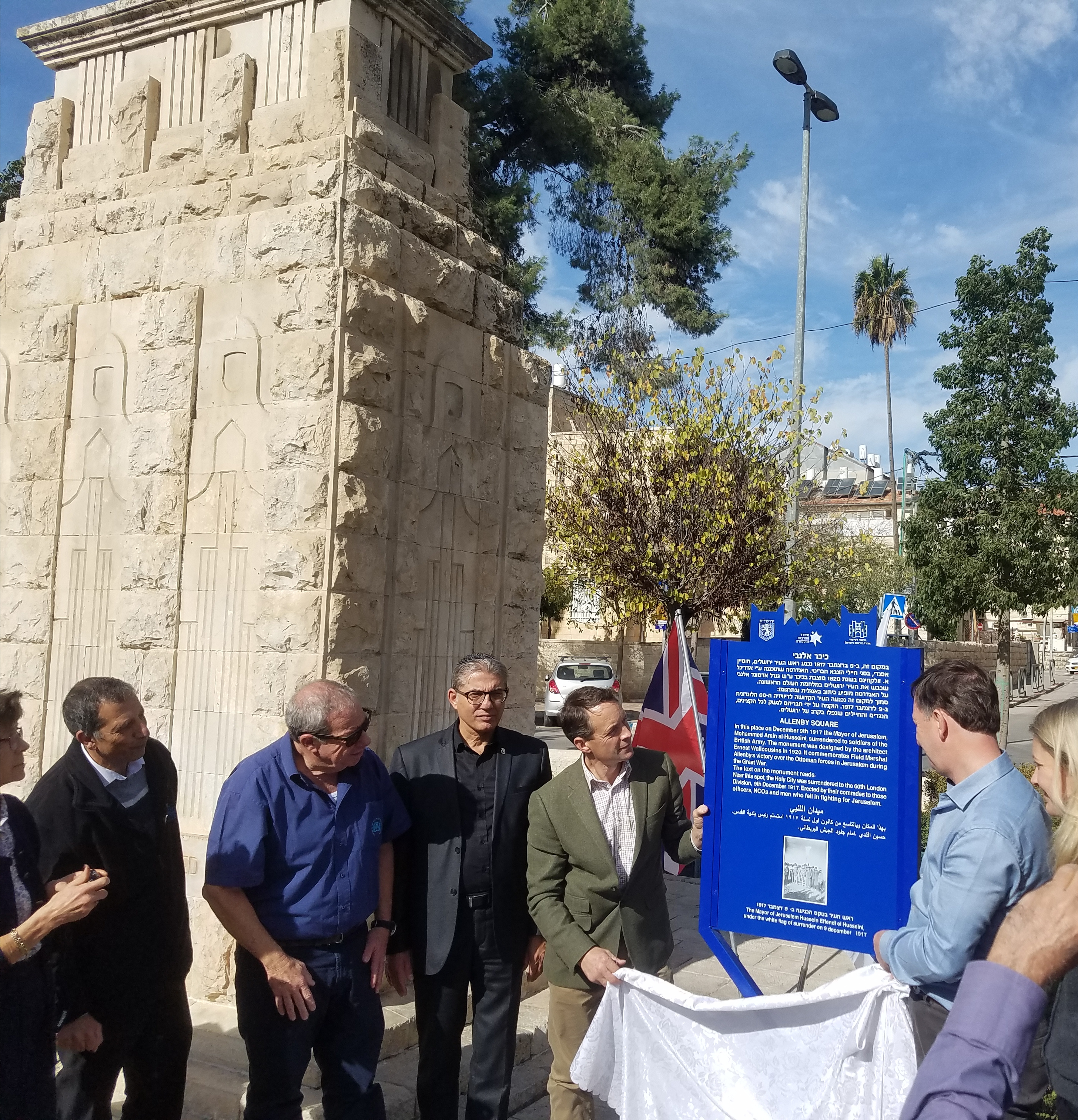 Allenby sq Jerusalem 100 years ceremony. From left to right - Itsik Shweki and Slomo Hillel from the council for conservation; Meir Turgeman vice Mayor of Jerusalem; the grand-grand son of the brother of general Alenby; the grand-grand-son of General Shay